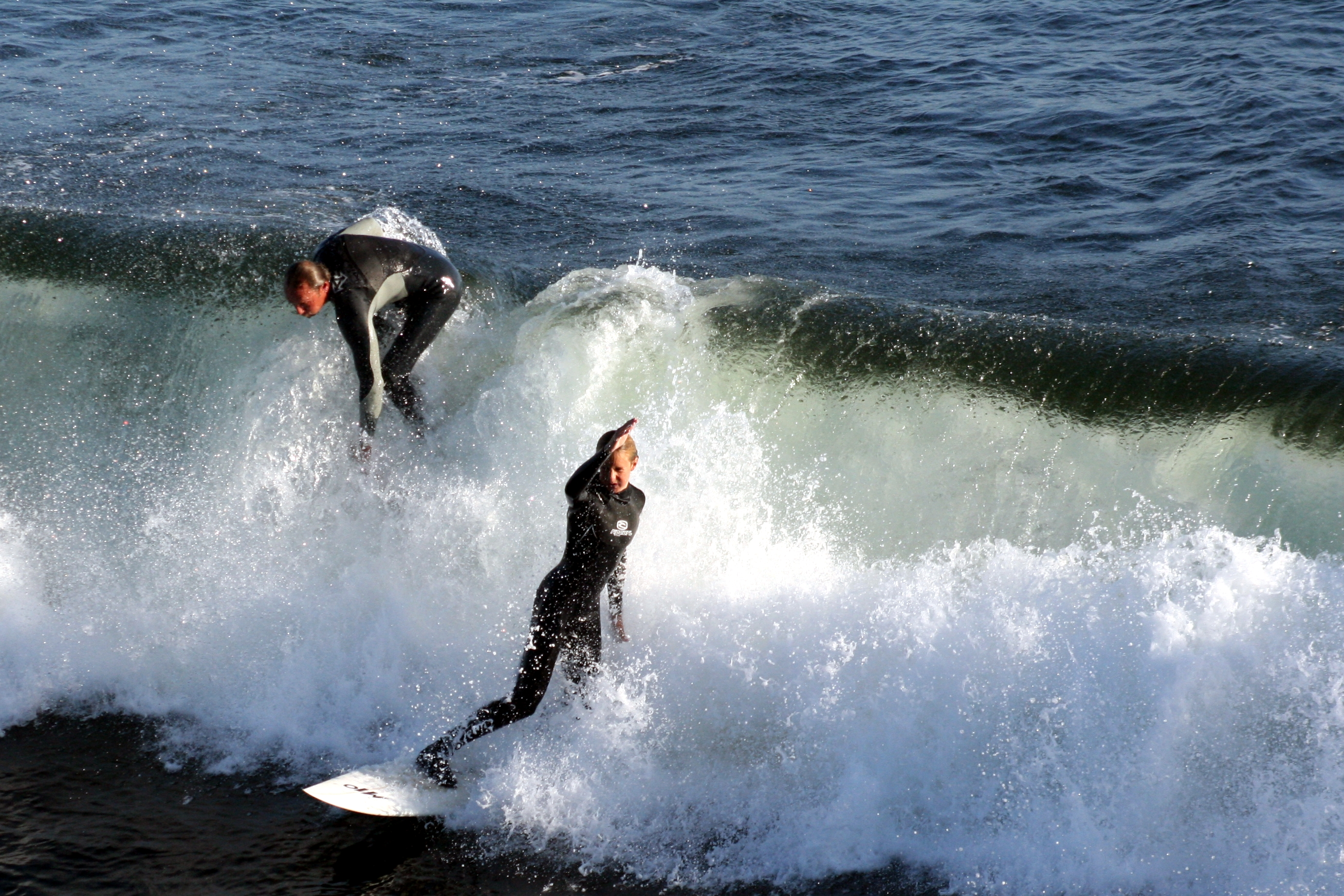 Surfers in Santa Cruz, California